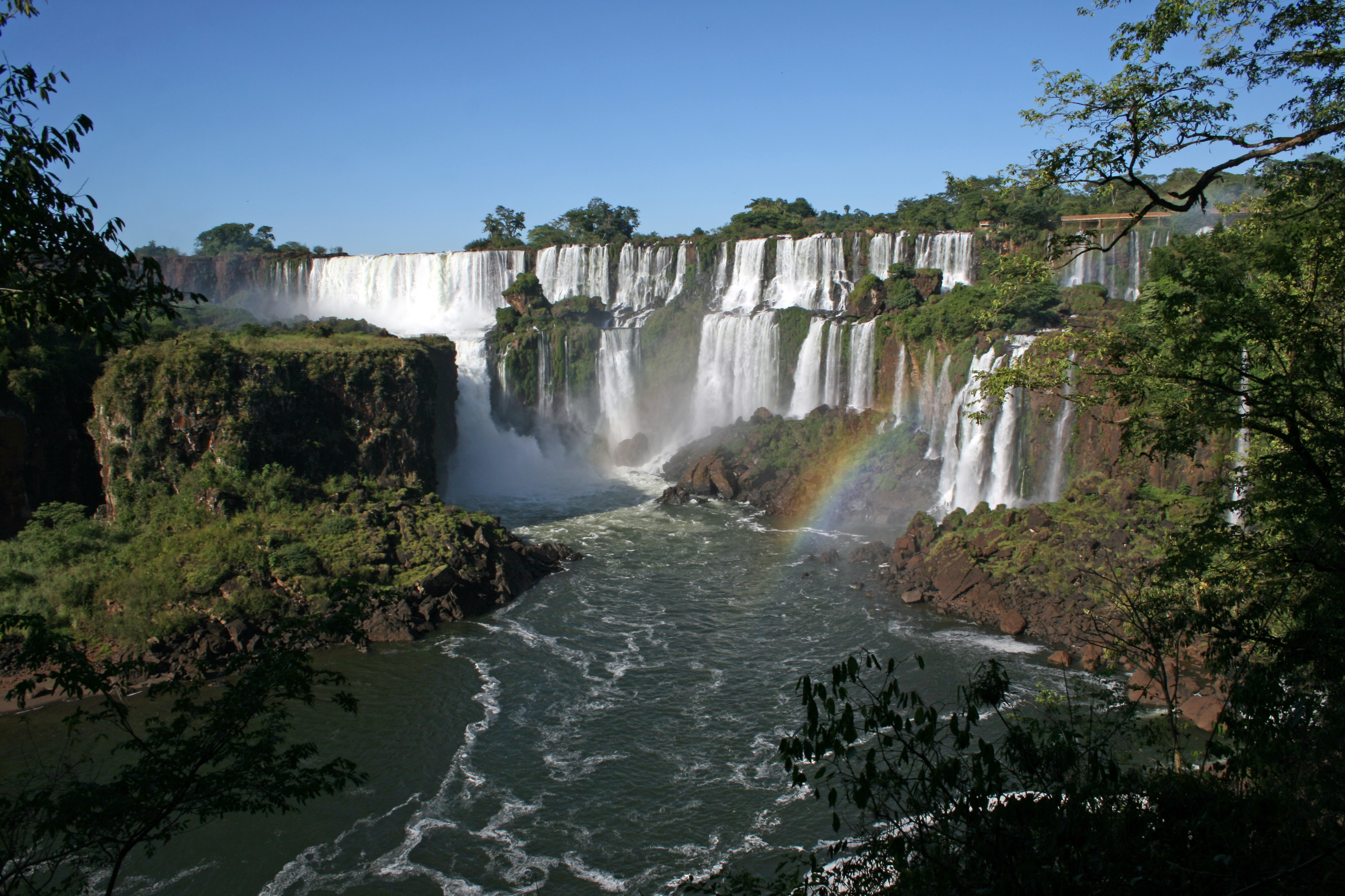 A view of one of the falls in Parque Nacional Iguazu, Missiones, Argentina.